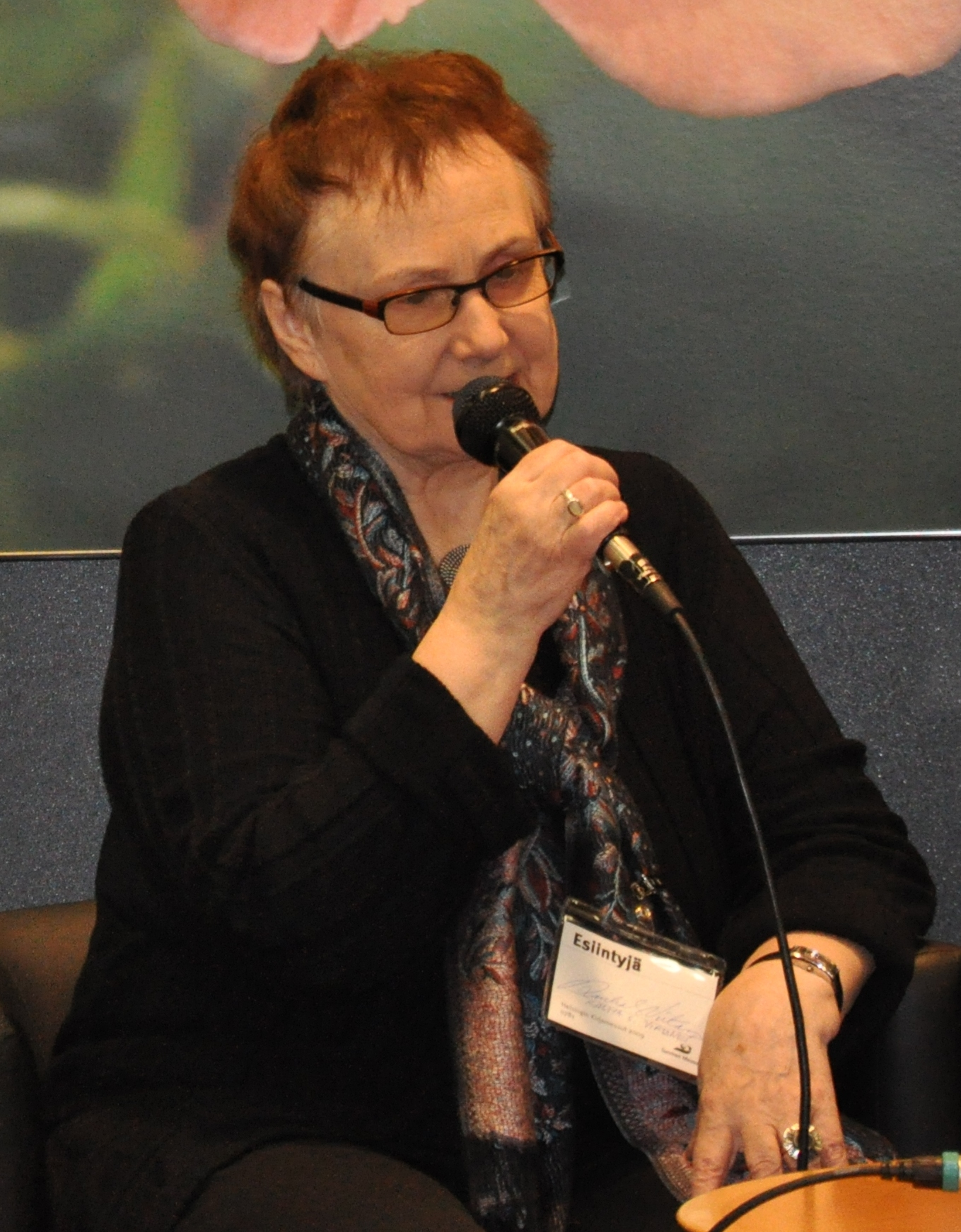 Finnish writer Rauha S. Virtanen at the Helsinki Book Fair 2009.